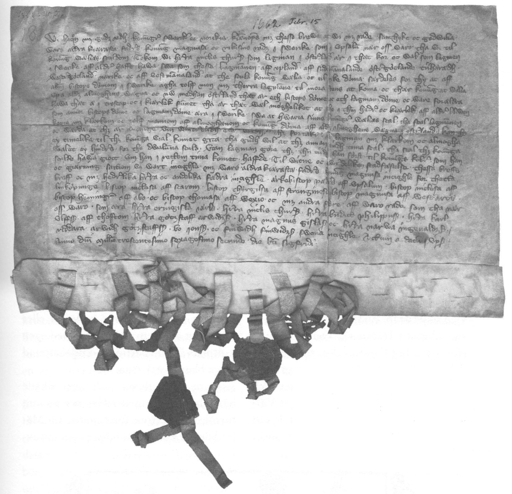 Notice for election of king, issued February 15, 1362 by king Håkan Magnusson of Sweden to the lawspeaker and peasants of Österland (Finland).